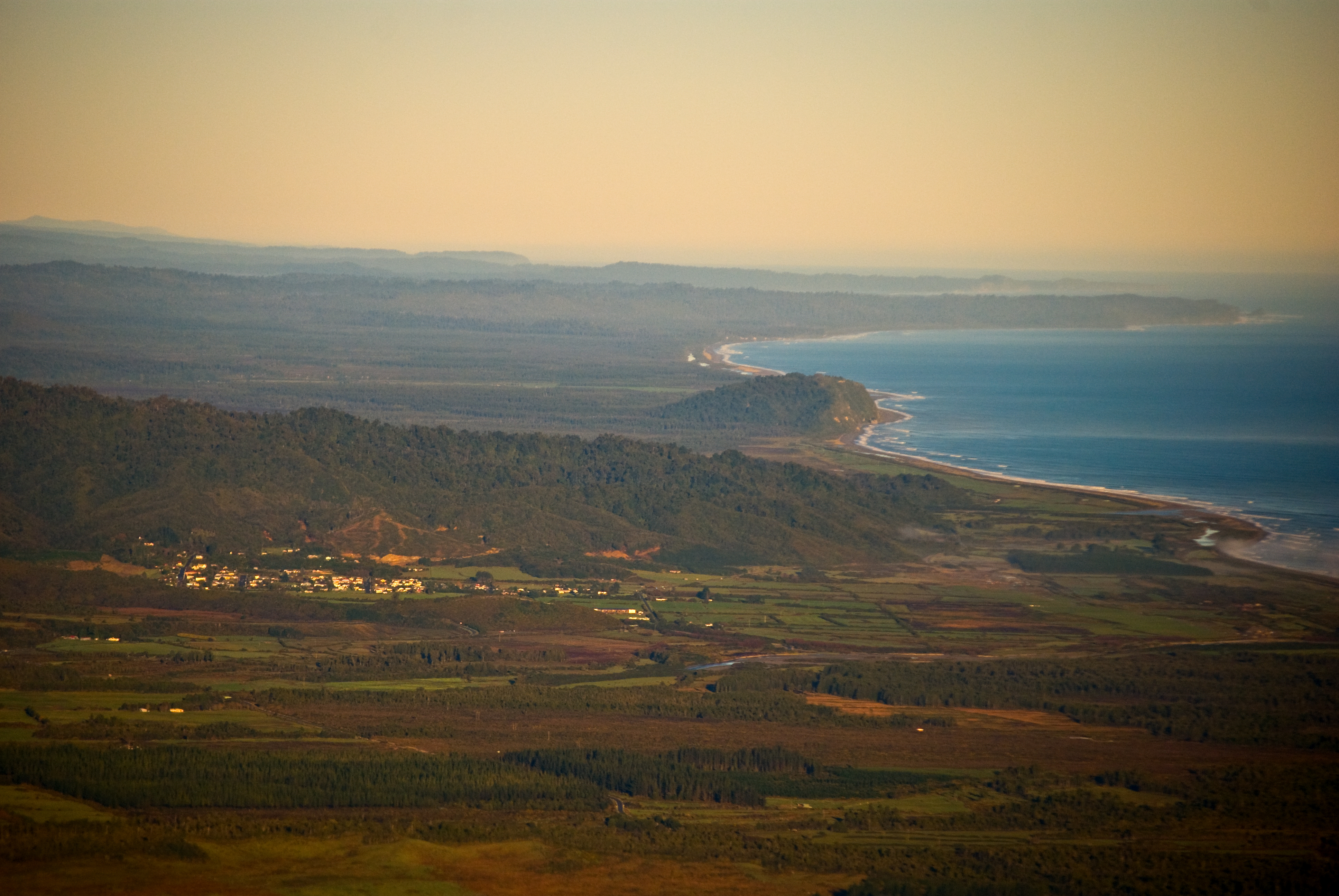 Ross, on the West Coast of New Zealand. Photo taken en route Christchurch to Hokitika in an Eagle Airways Beech 1900D